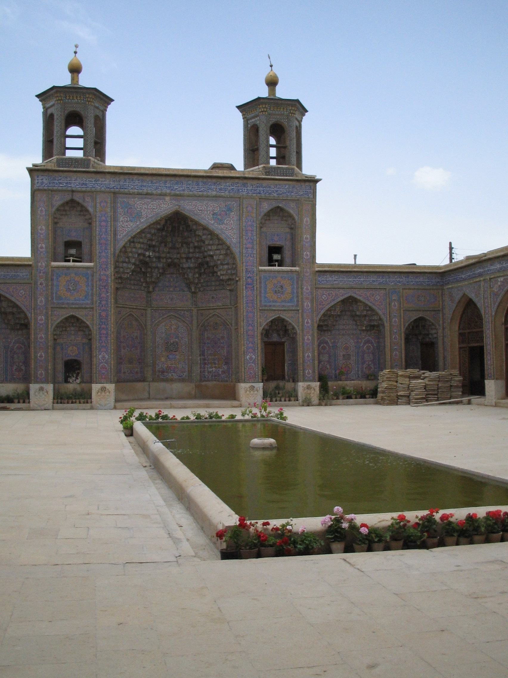 Masjed Nasir ol Molk in Shiraz, Fars Province, Iran.